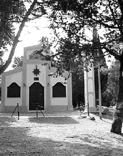 chisetta montursi